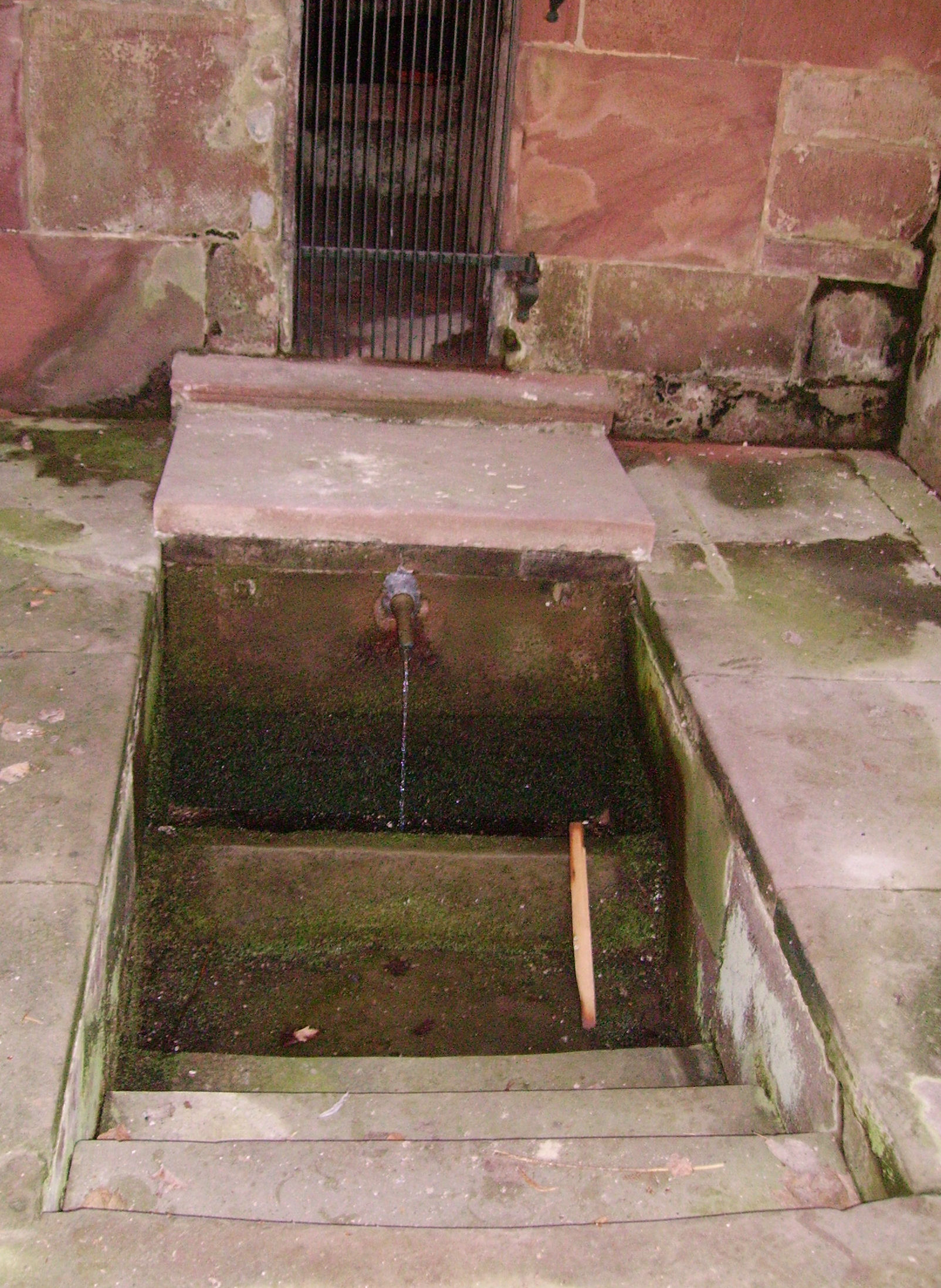 historic fountain of Heidelberg castle (Heidelberger Schloss)